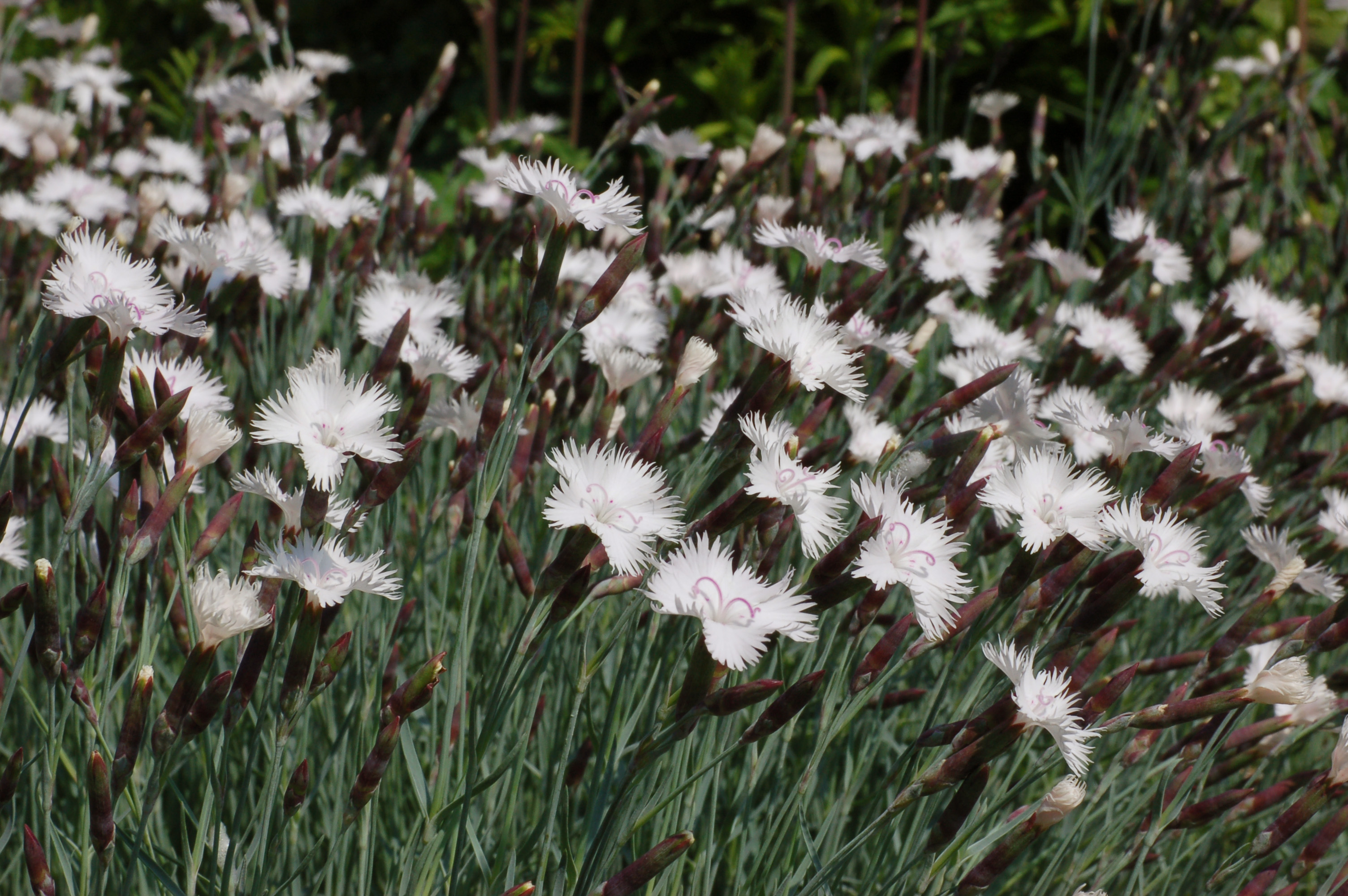 Picture of a flowers and foliage of the Dianthusen (Dianthus japonicus en ). Photo taken on Step 11 in the Ruin Garden at the Chanticleer Garden where the species was identified. The plant is listed with Accession #2000-0130.